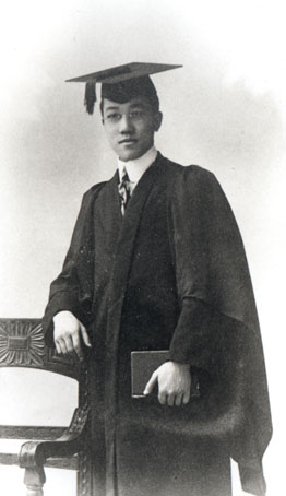 John Wong-Quincey (1886－1968)